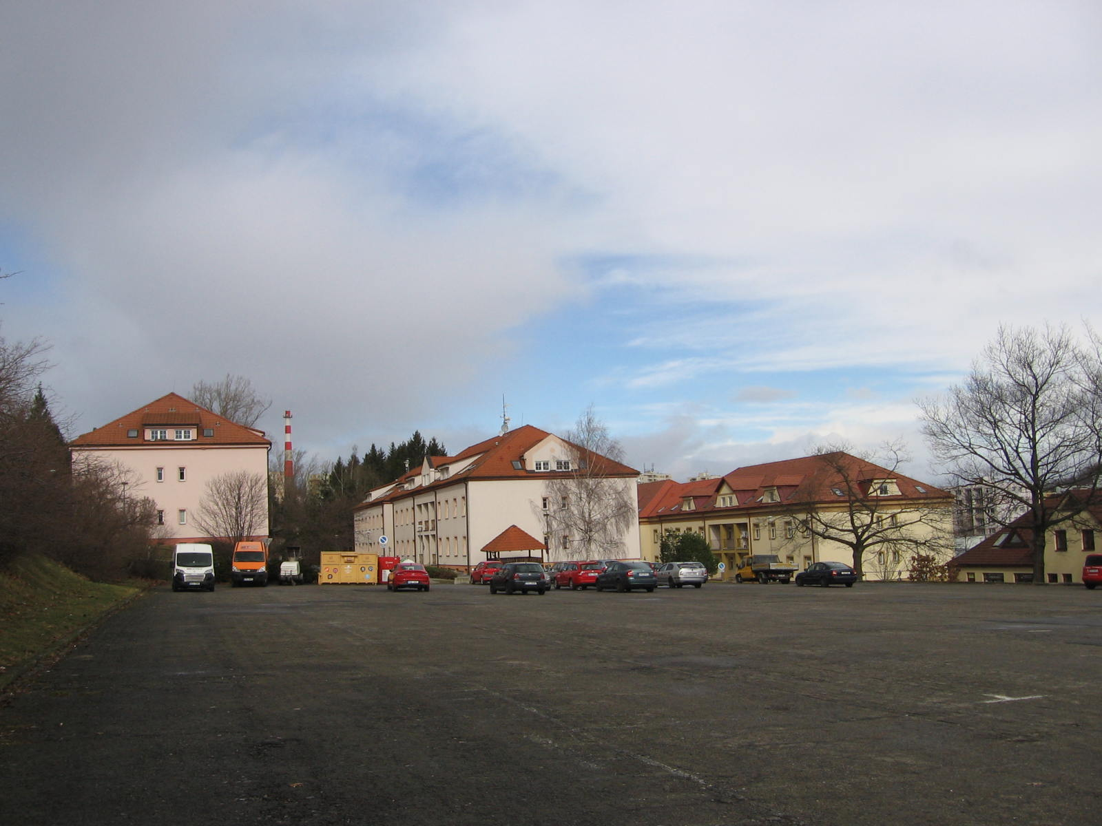 Former Barracks of the 62nd Motor Rifle Regiment in Prachatice.